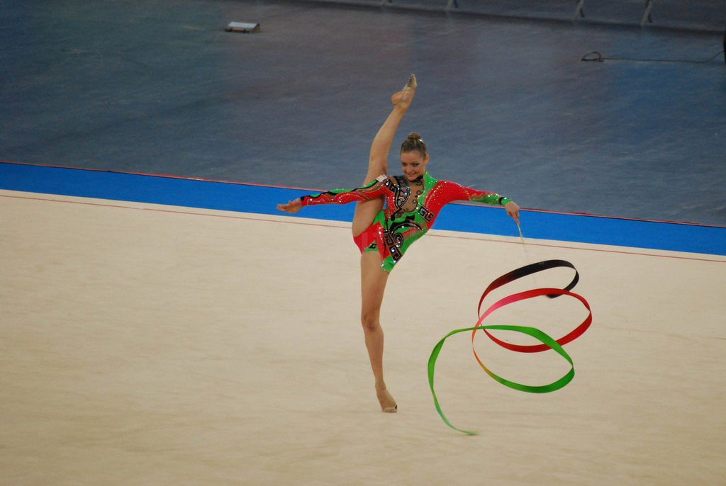 Chrystalleni Trikomiti, a rhythmic gymnast from Cyprus, during her routine at the 2010 Commonwealth Games.